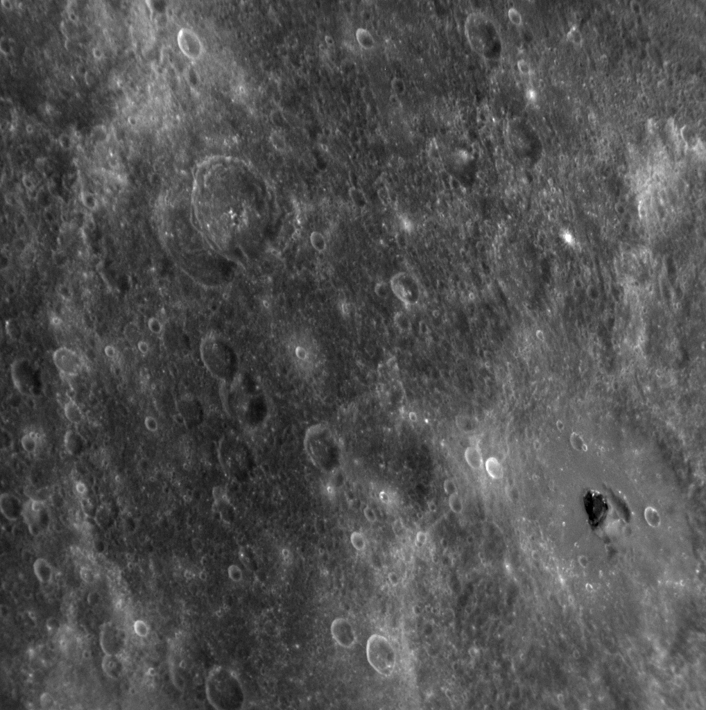 Image Mission Elapsed Time (MET): 131771988 Instrument: Narrow Angle Camera (NAC) of the Mercury Dual Imaging System (MDIS) Resolution: 260 meters/pixel (0.16 miles/pixel) Scale: This image is about 270 kilometers (170 miles) across Spacecraft Altitude: 10,100 kilometers (6,300 miles) Of Interest: The crater Hemingway in the lower right-hand corner of this image has a patch of very dark material located near its center. The region of this image has been seen only with the Sun high overhead in the sky. Such lighting conditions are good for recognizing color differences of rocks but not well suited for ascertaining the topography of surface features from shadows. The shape of the surface in this area is difficult to resolve given the lighting angle, but the dark patch is not in shadow. Dark surfaces have also been seen on other regions of Mercury, including this dark halo imaged during the second Mercury flyby and near such named craters as Nawahi, Atget, and Basho seen during MESSENGER's first Mercury encounter. The example here is particularly striking, however, and from this NAC image the material may appear even darker than in other example areas. The dark color is likely due to rocks that have a different mineralogical composition from that of the surrounding surface. Understanding why these patches of dark rocks are found on Mercury's surface is a question of interest to the MESSENGER Science Team. The right edge of the image here aligns with this previously released NAC image, where other dark surface material, as well as patches of light-colored rocks, can be seen.